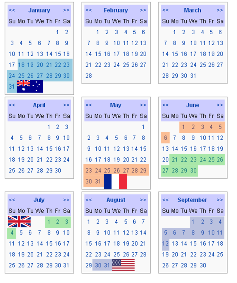 Calendar of tennis grand slam events